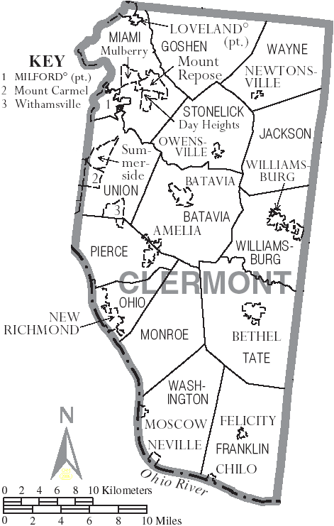 Map of Clermont County, Ohio, United States with township and municipal boundaries